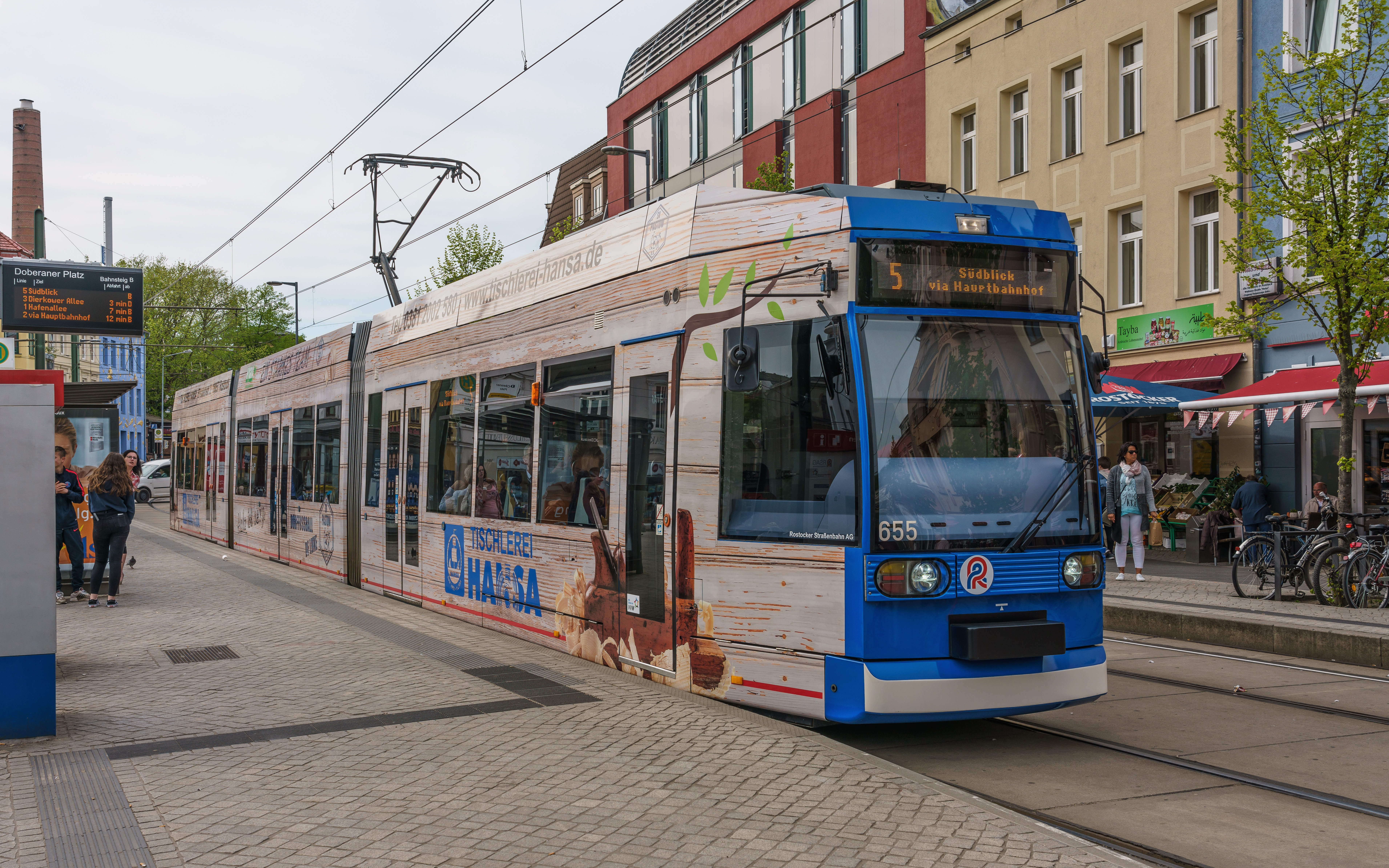 Tram at Doberaner Platz in Rostock, Germany